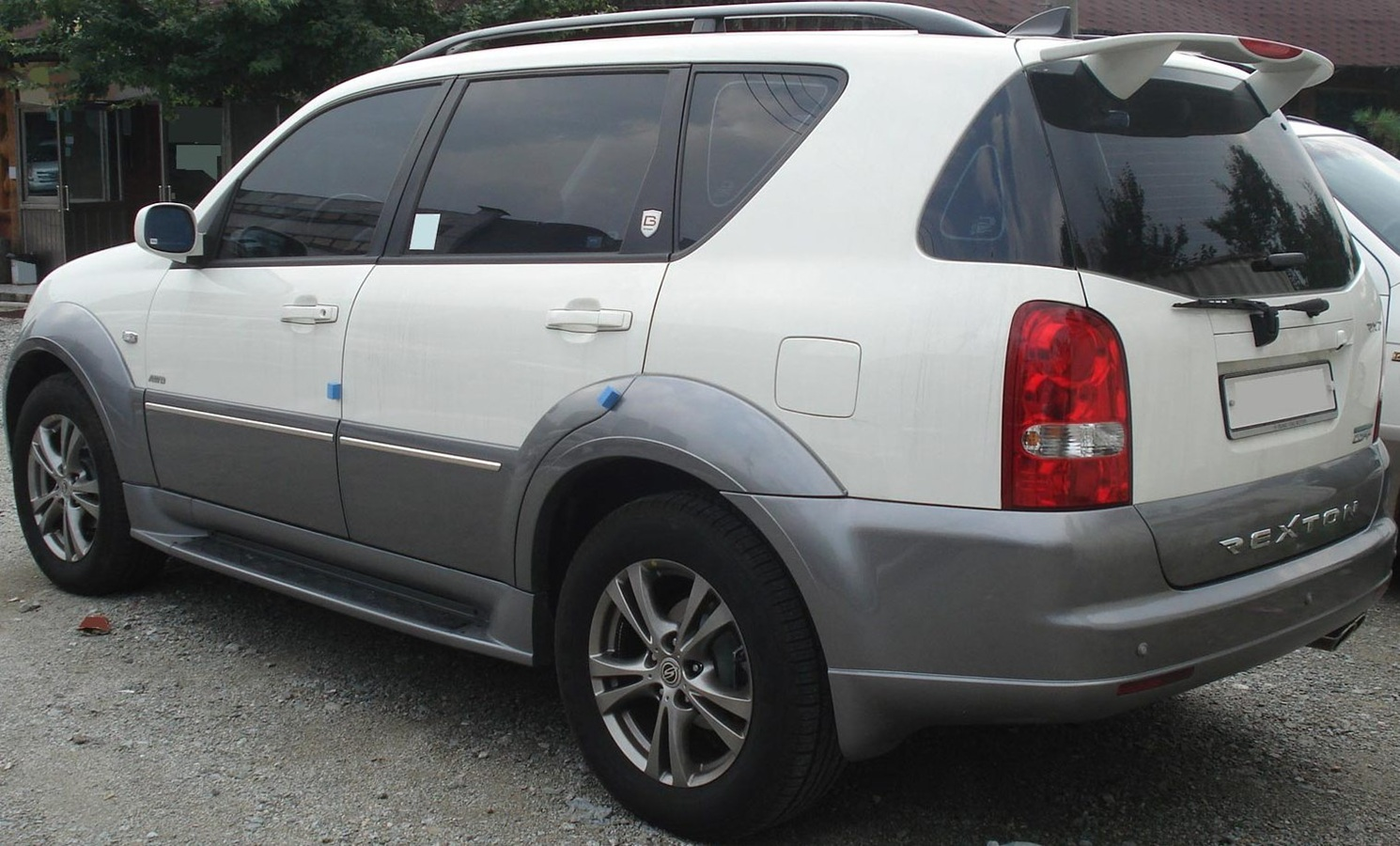 SsangYong Super Rexton